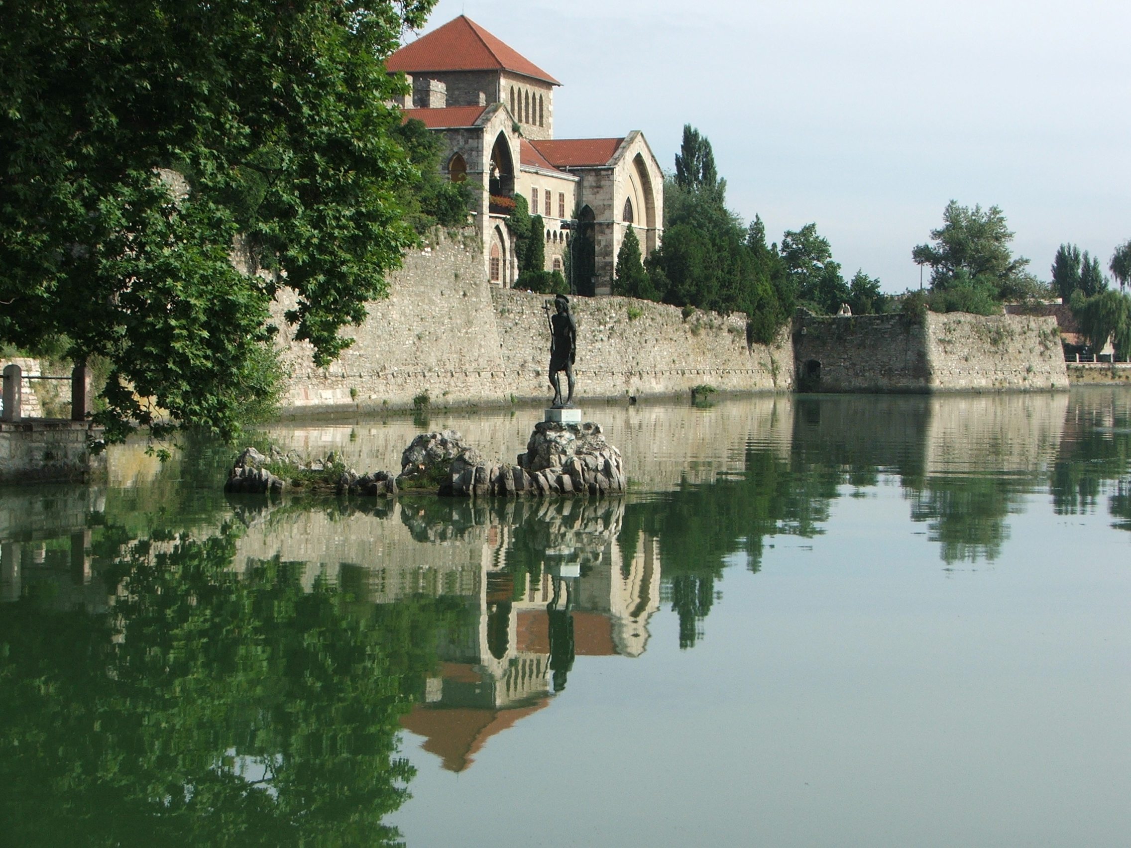 Tata castle and statue of St. John the Baptist